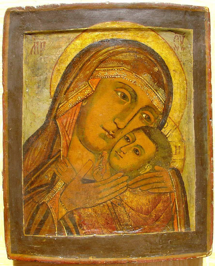 Our Lady of Korsun